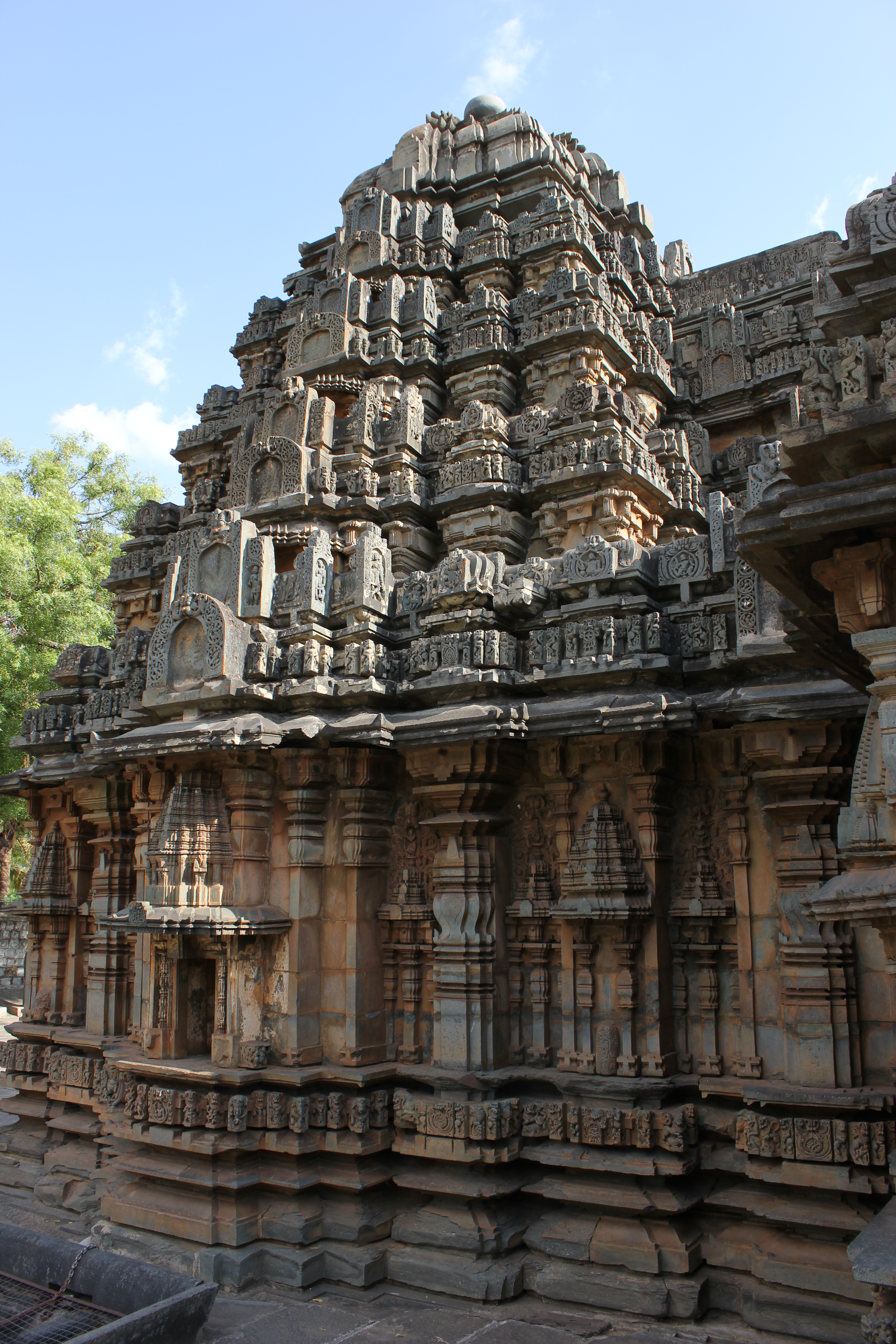 The Siddhesvara temple (also spelt Siddesvara or Siddheswara) was consecrated during the rule of the Kalyani (Western) Chalukya king Vikramaditya VI in the late 11th century and completed in the 12th century. Haveri is a town in the Haveri district of the Karnataka state, India.